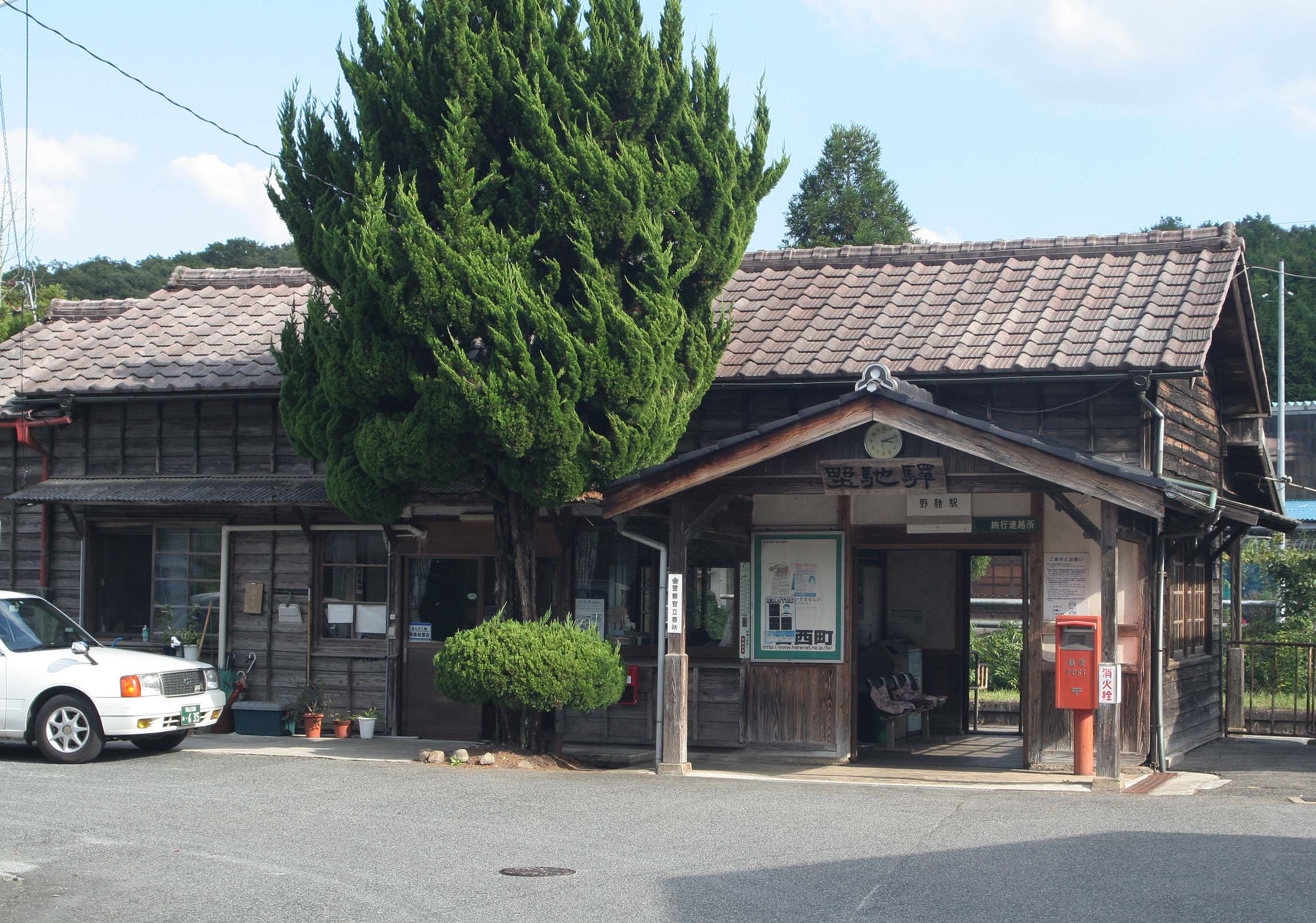 West Japan Railway Geibi Line Nochi Station